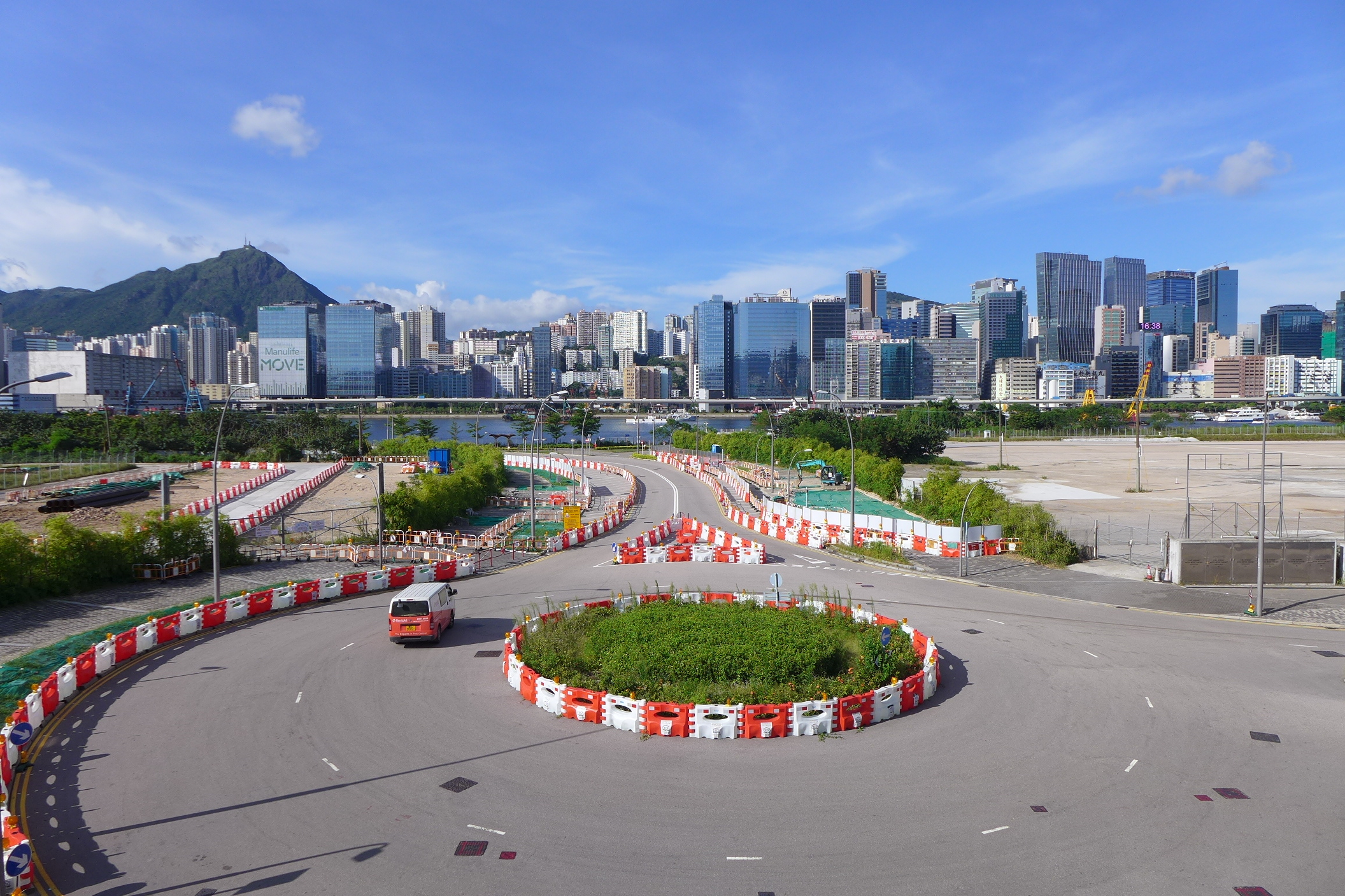 Shing Feng Road view